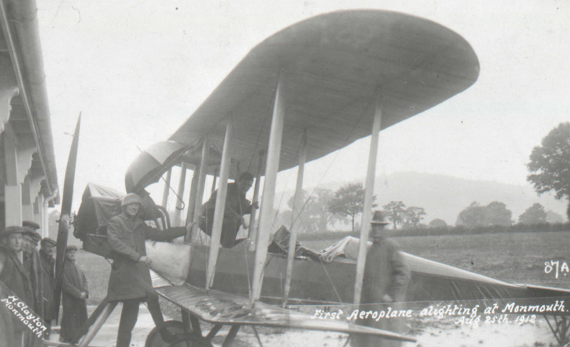 25 August 1912 Royal Aircraft Factory BE2 Aeroplane. First aeroplane to land in monmouth from Lark Hill flown by Lietenants Fox and Ashton. Monmouth Museum Identity Number: M754